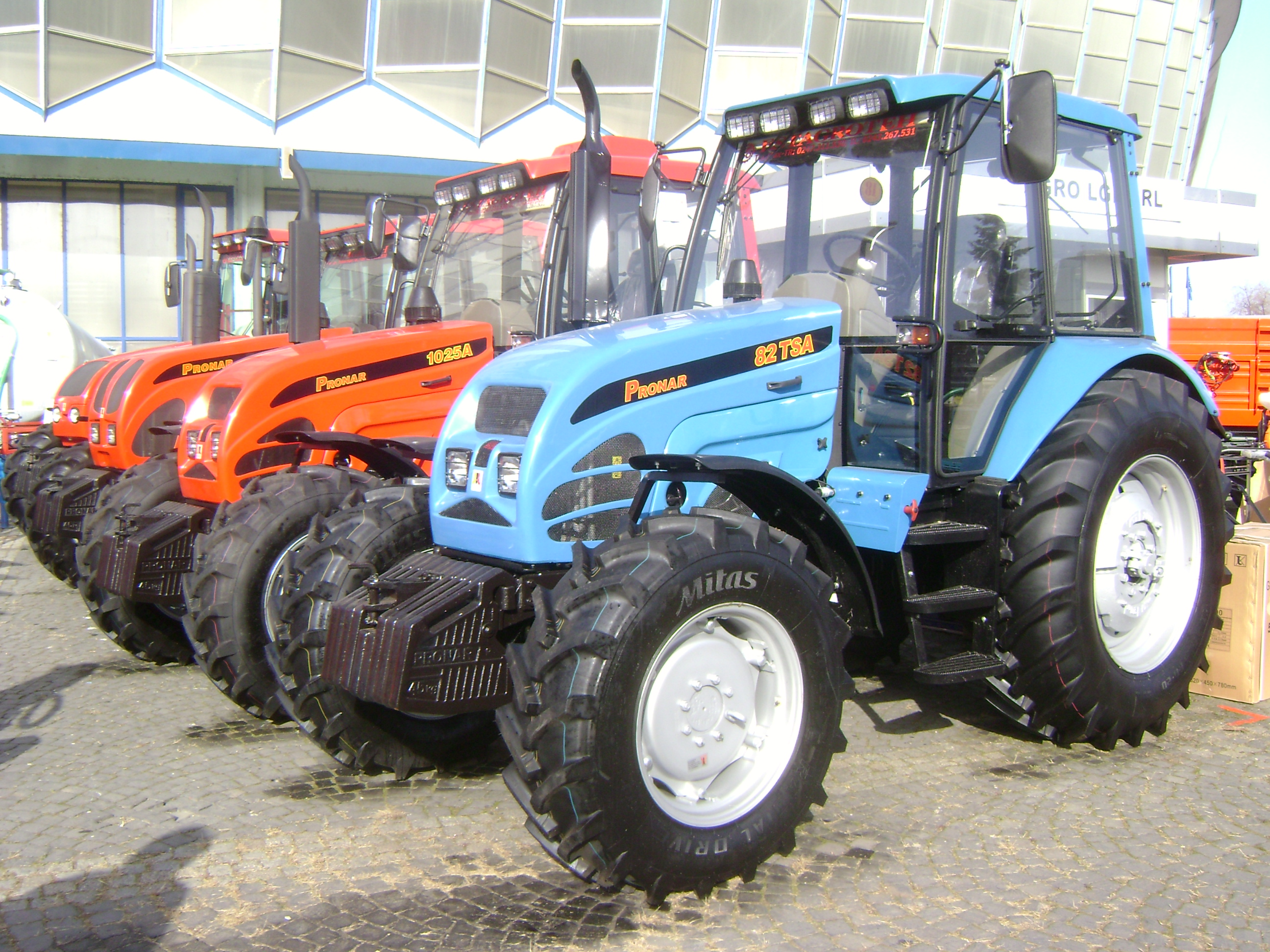 Pronar 82TSA, 1025A and other tractors seen in Bucharest, Romania at Romexpo during the 2010 IndAgra Farm international exhibition of equipment and products from the fields of agriculture, animal husbandry and foodstuff